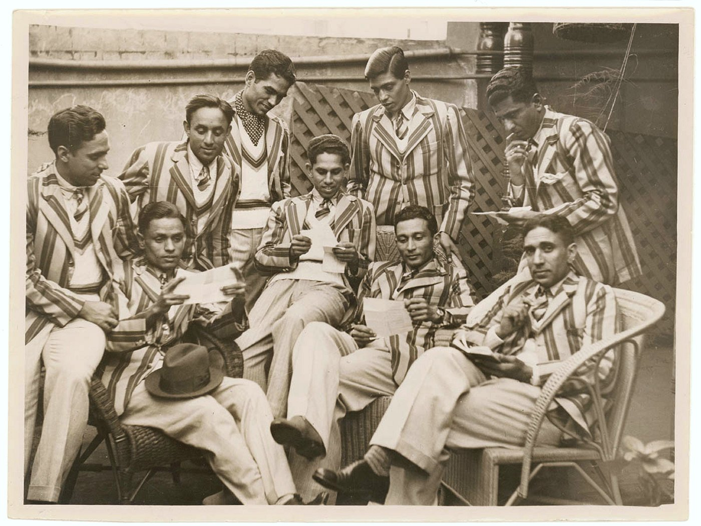 Format: Photograph Notes: Find more detailed information about this photographic collection: .au/item/itemDetailPaged.aspx?itemID=153436 Search for more great images in the State Library's collections: .au/search/SimpleSearch.aspx From the collection of the State Library of New South Wales